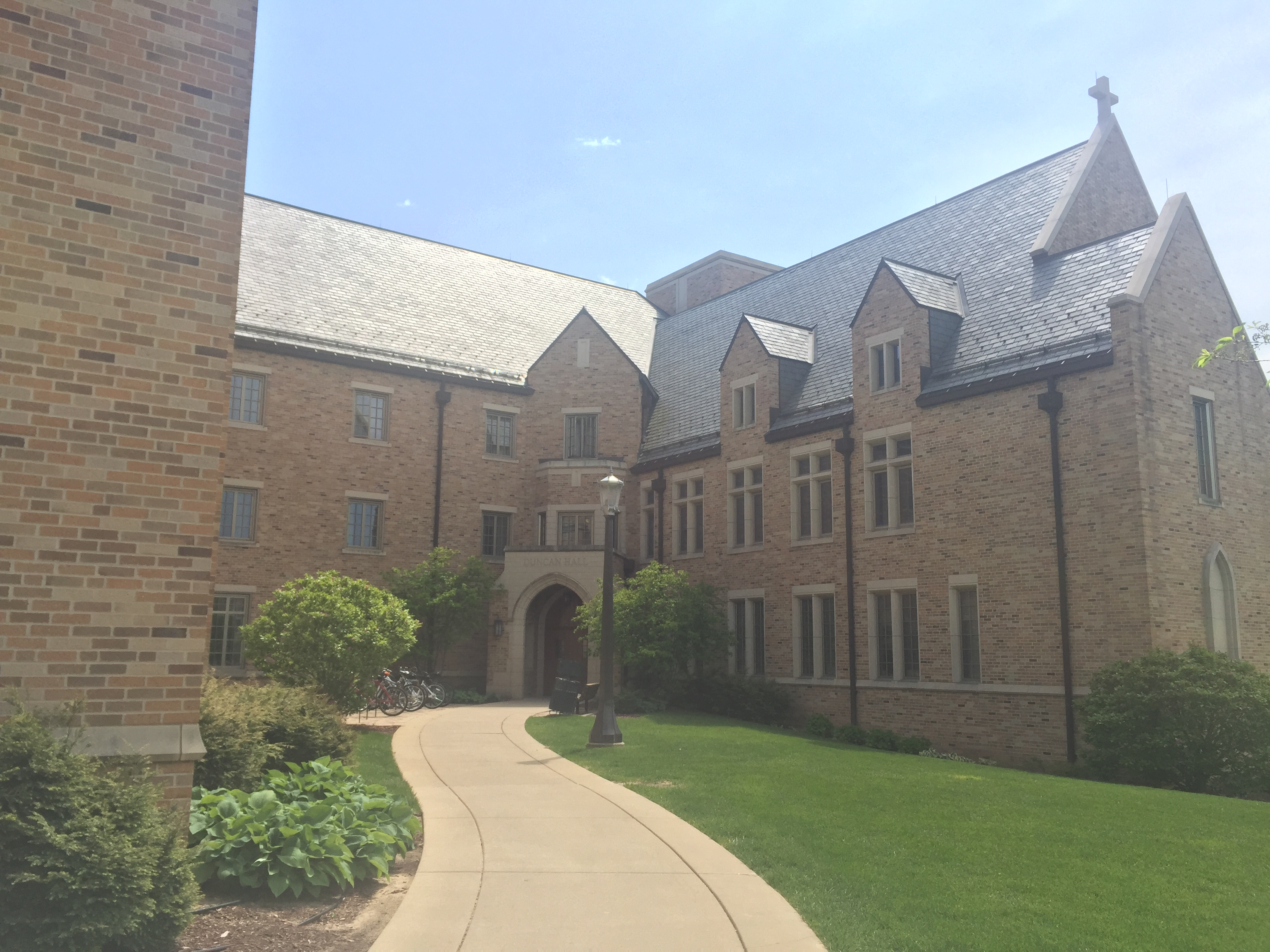 Duncan Hall - Front